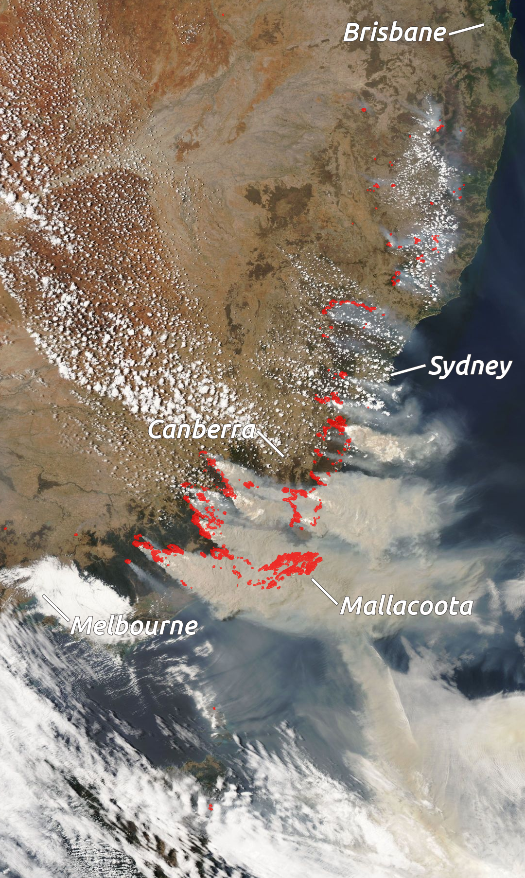 Imagery from NASA Aqua Satellite showing MODIS & VIIRS data of Australian bushfires. Highlighted in red are fire detections, notable landmarks labeled. We acknowledge the use of imagery from the NASA Worldview application ( part of the NASA Earth Observing System Data and Information System (EOSDIS).